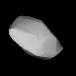 3D convex shape model of 495 Eulalia, computed using light curve inversion techniques. J. Hanuš, J. Ďurech, M. Brož, B. D. Warner (June 2011). "A study of asteroid pole-latitude distribution based on an extended set of shape models derived by the lightcurve inversion method". Astronomy and Astrophysics 530: A134. ISSN 0004-6361. arXiv